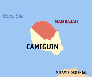 Map of Camiguin showing the location of Mambajao